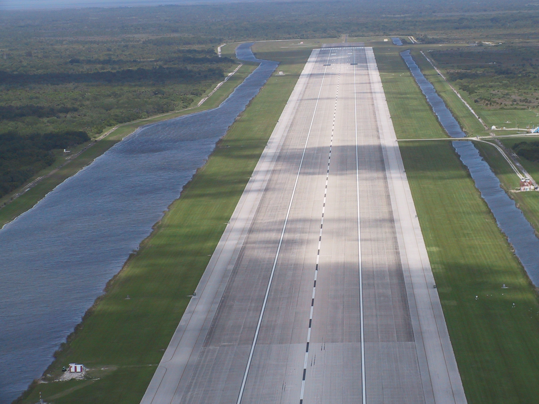 Space shuttle landing strip at Kennedy Space Center, Florida, April 2001